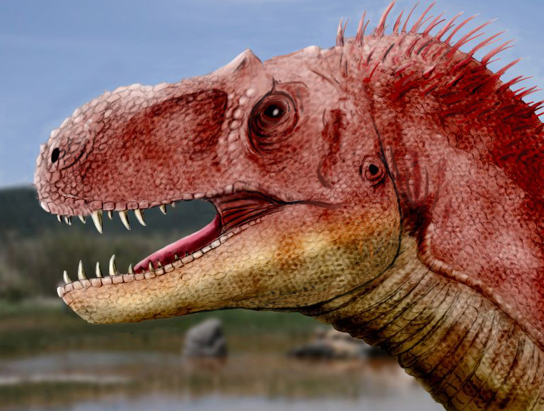 Teratophoneus